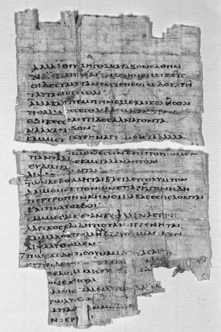 Fragment of Papyrus preserving parts of two poems by Sappho. The papyrus measures 176 x 111mm. The top 20 lines are the final five stanzas of the Brothers Poem; the final 9 lines are the beginning of the Kypris poem. The text was written some time between the first and third centuries AD. The papyrus was published for the first time by Dirk Obbink in 2014.